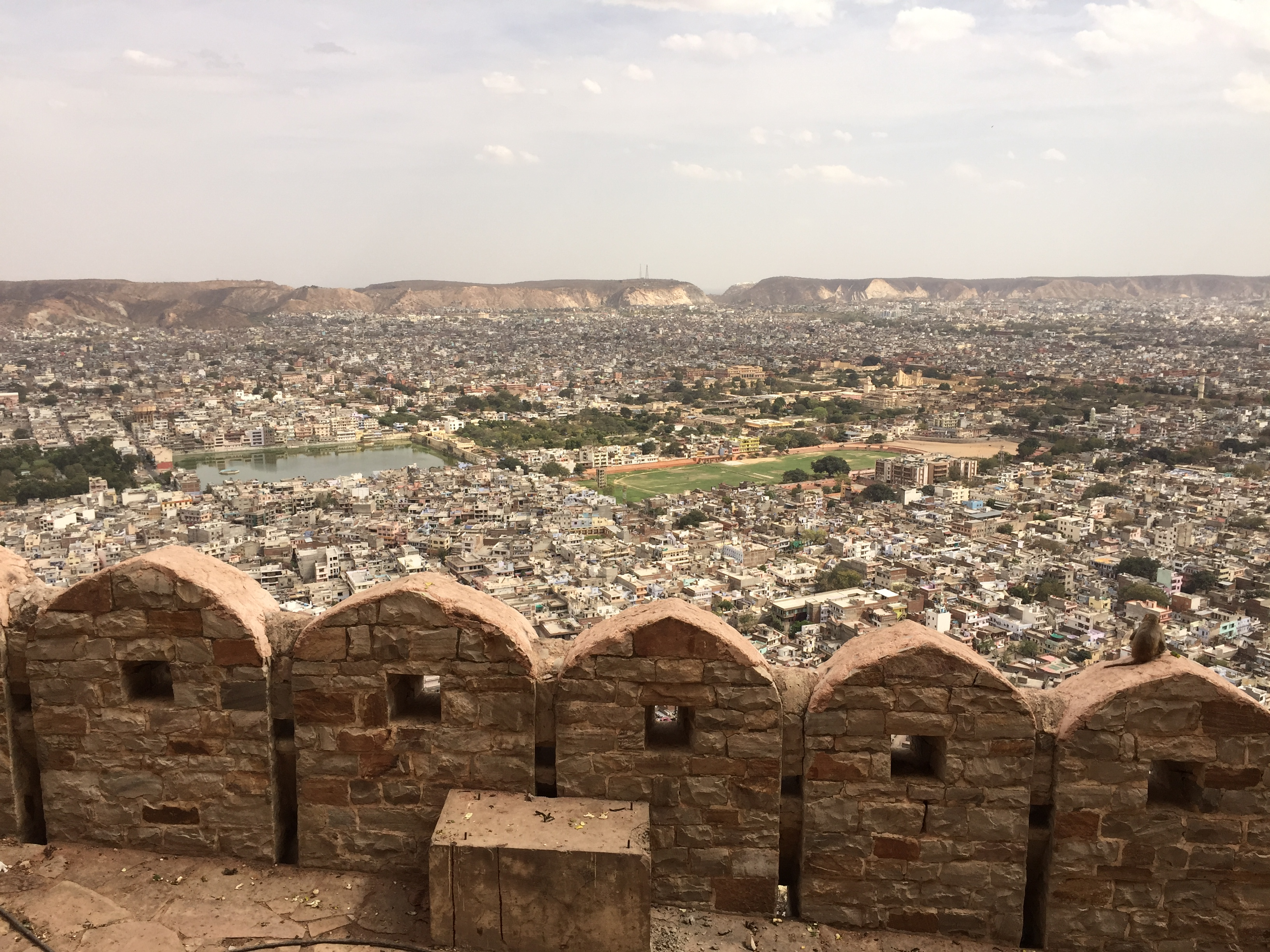 The pink city of Jaipur. This is a Bird's-Eye View of the city of jaipur.